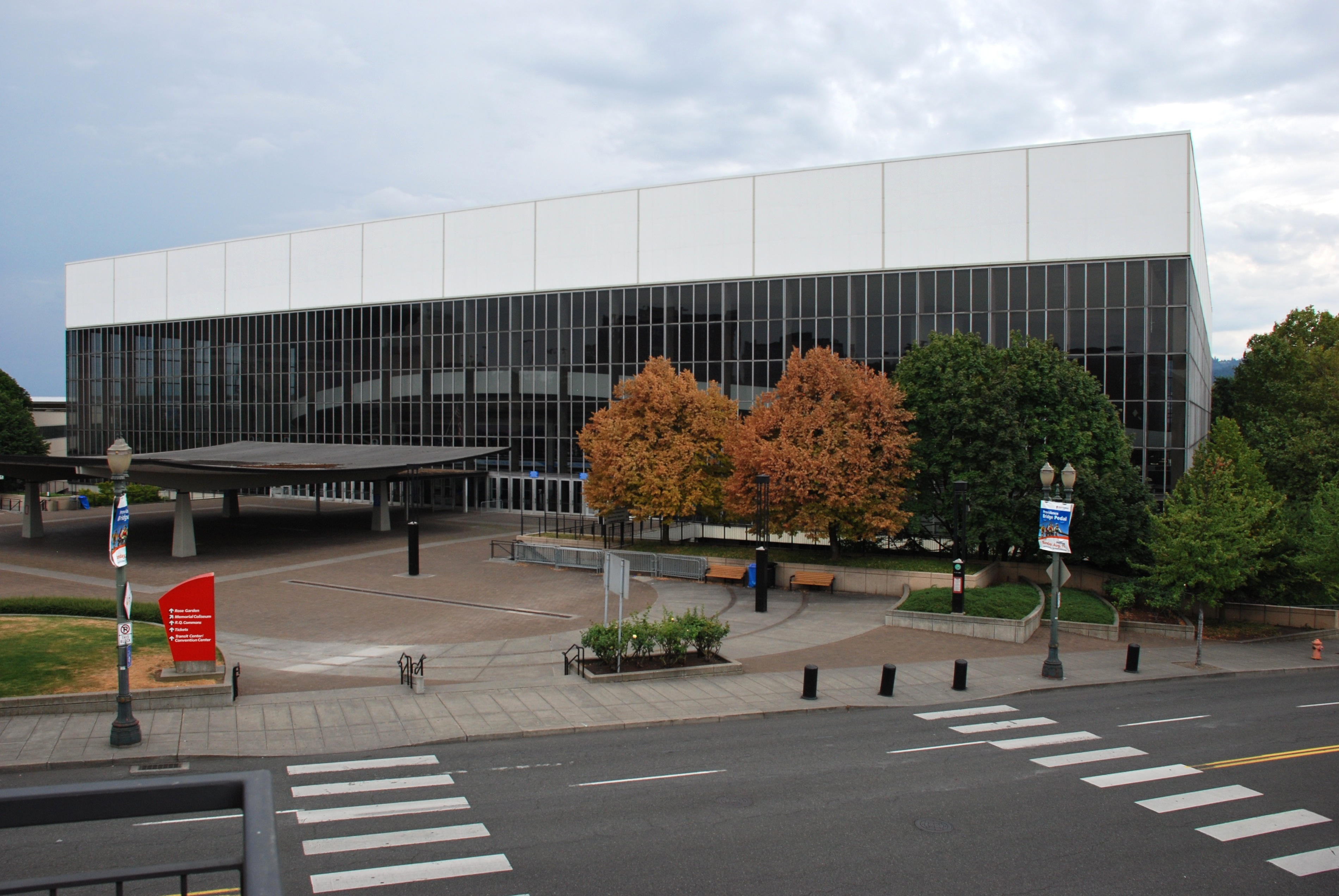 The Memorial Coliseum (renamed Veterans Memorial Coliseum in 2011), in Portland, Oregon, viewed from the north, from the stairway of the east parking garage. The 1960 building is listed on the U.S. National Register of Historic Places.